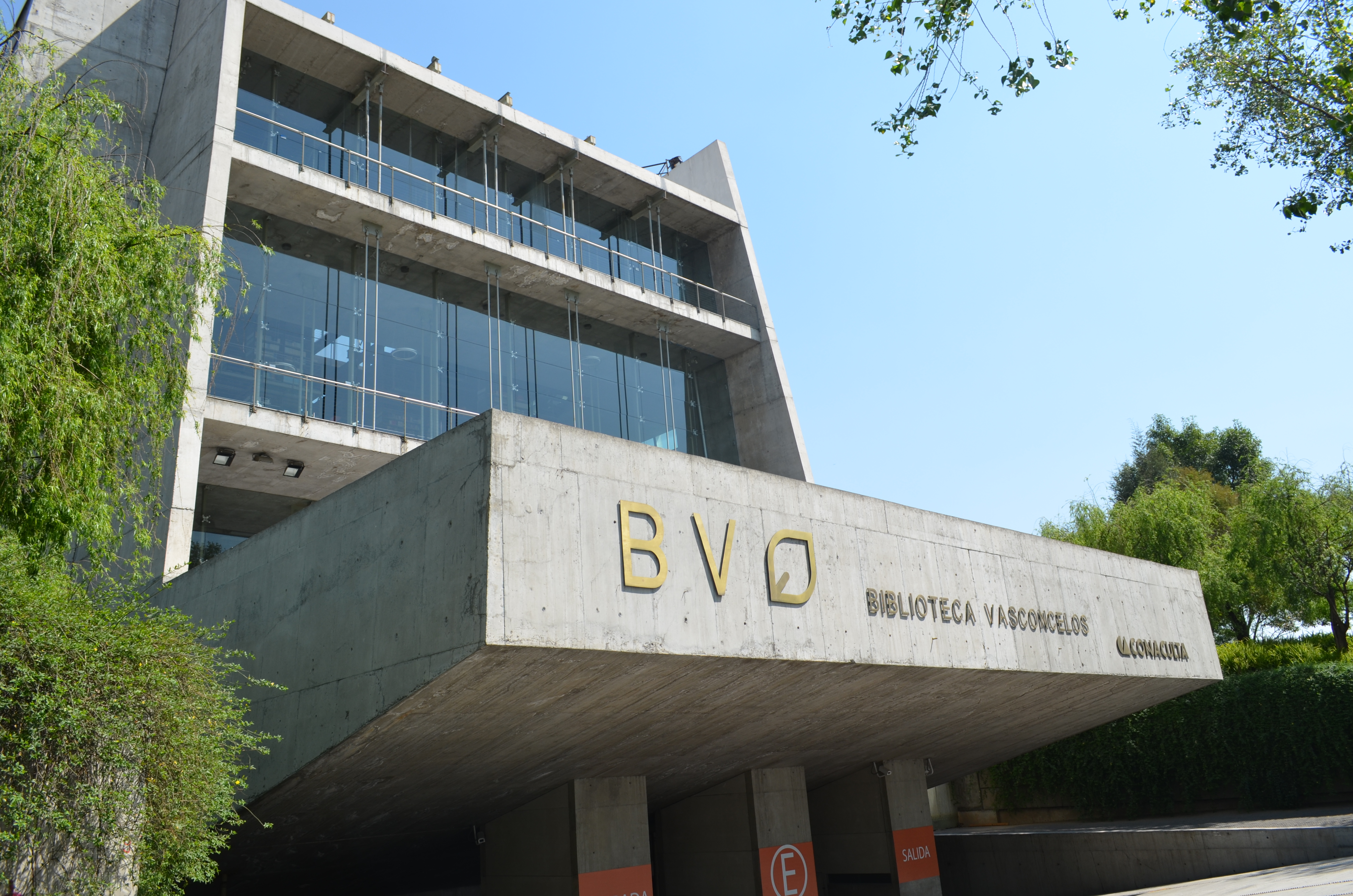 Facade of the Biblioteca Vasconcelos (Vasconcelos Library) in Mexico City.